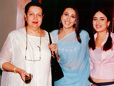 Indian actress Kareena Kapoor with mother Babita and sister Karisma on the sets of her 2003 film, Main Prem Ki Diwani Hoon